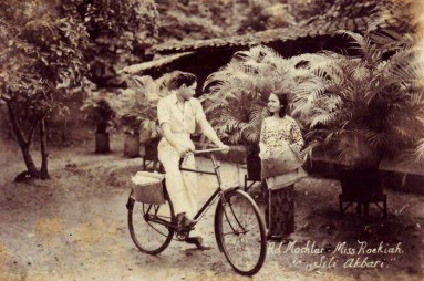 Promotional image for the film Siti Akbari, showing Roekiah and Rd Mochtar.